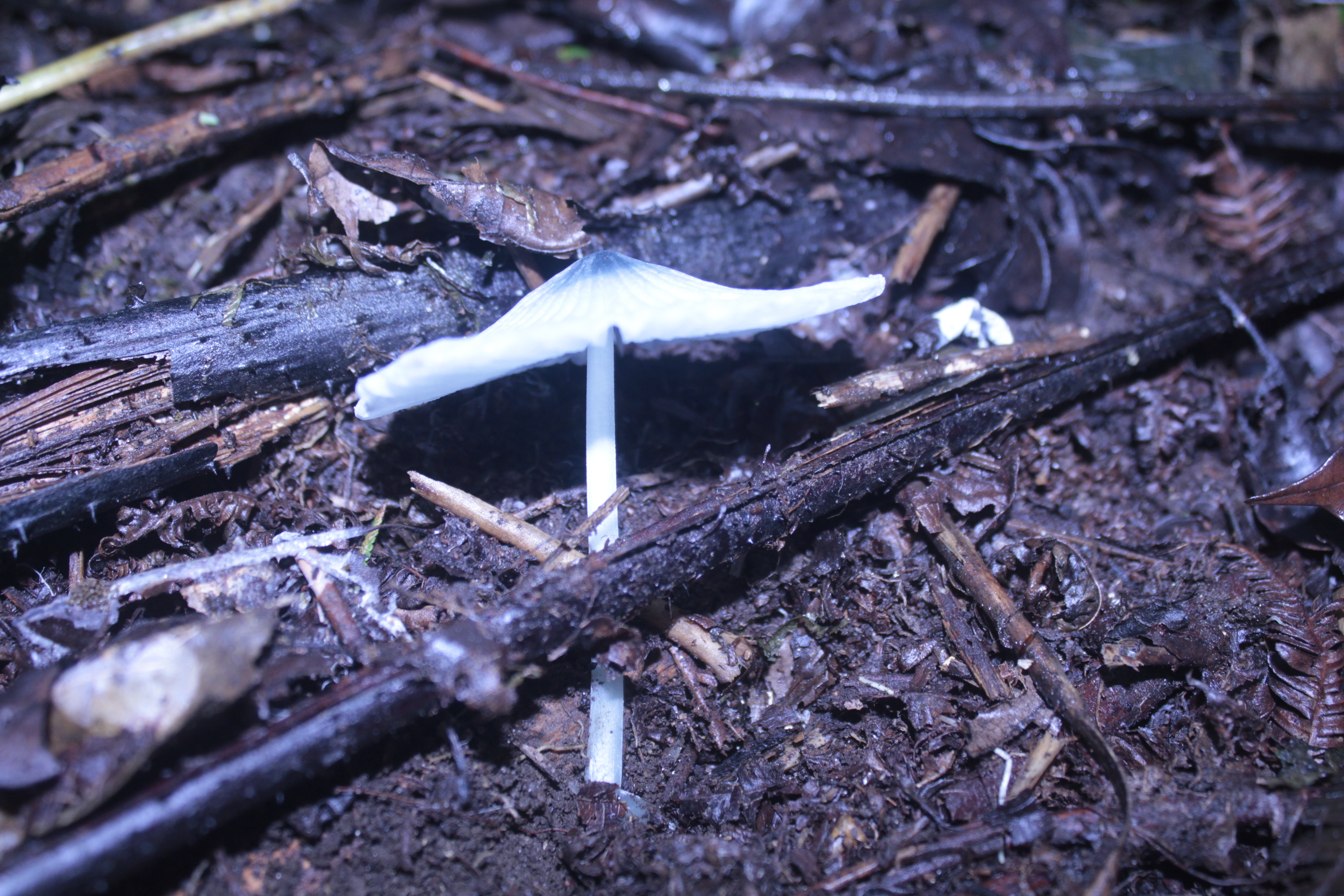 A close shot of the Agaricus Mushroom growing on the black fertile soil of mount Cameroon national park.